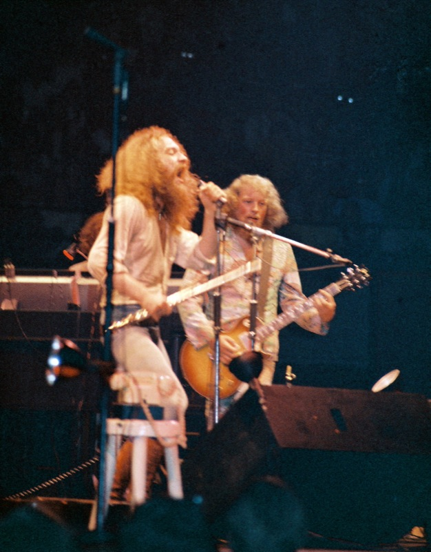 Singer Ian Anderson and guitar player Martin Barre from Jethro Tull - September, 1973 Chicago Stadium - the "Passion Play" tour